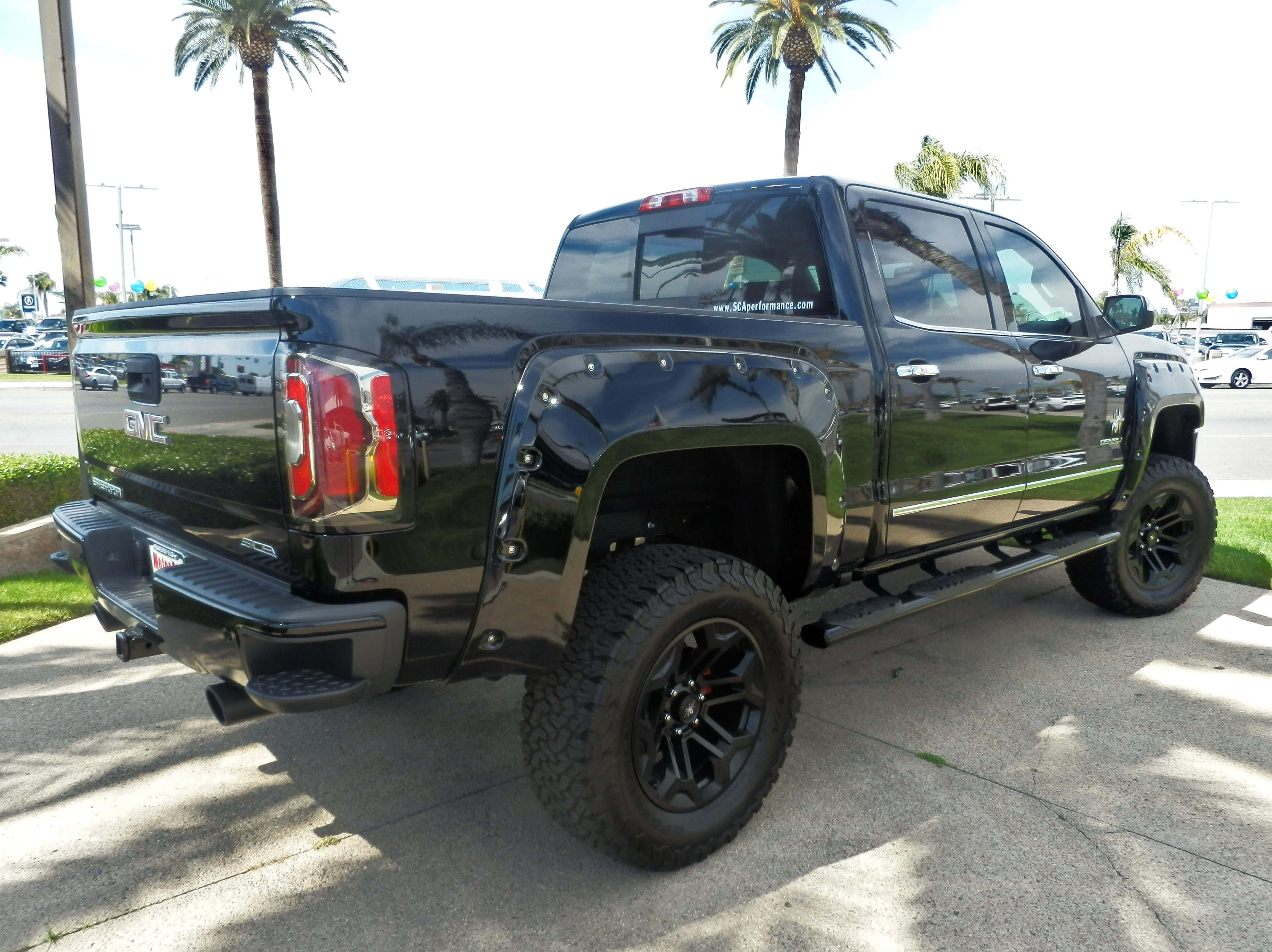 GMC Sierra Denali in Bakersfield